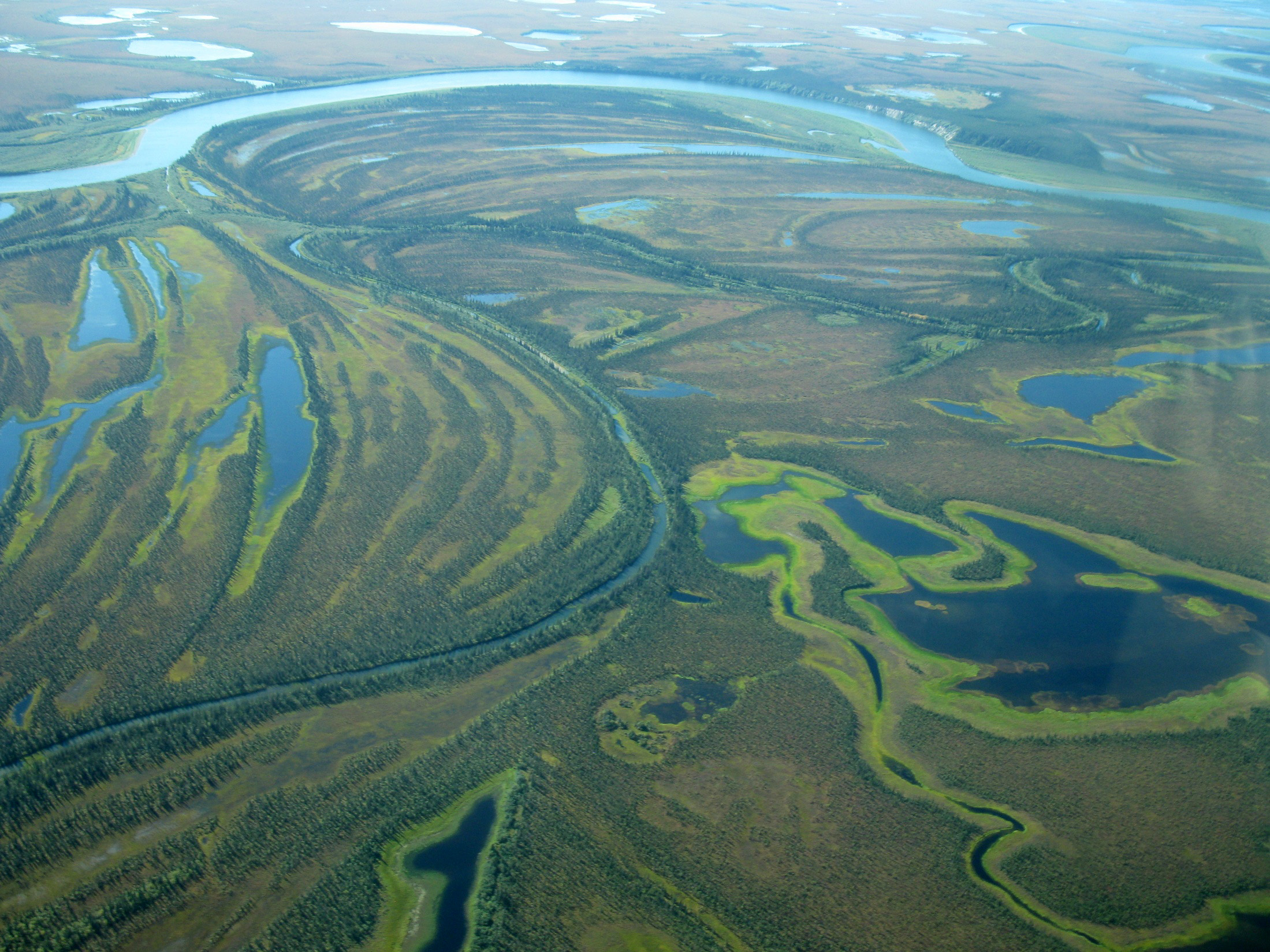 Kobuk River, hydrology, meanders